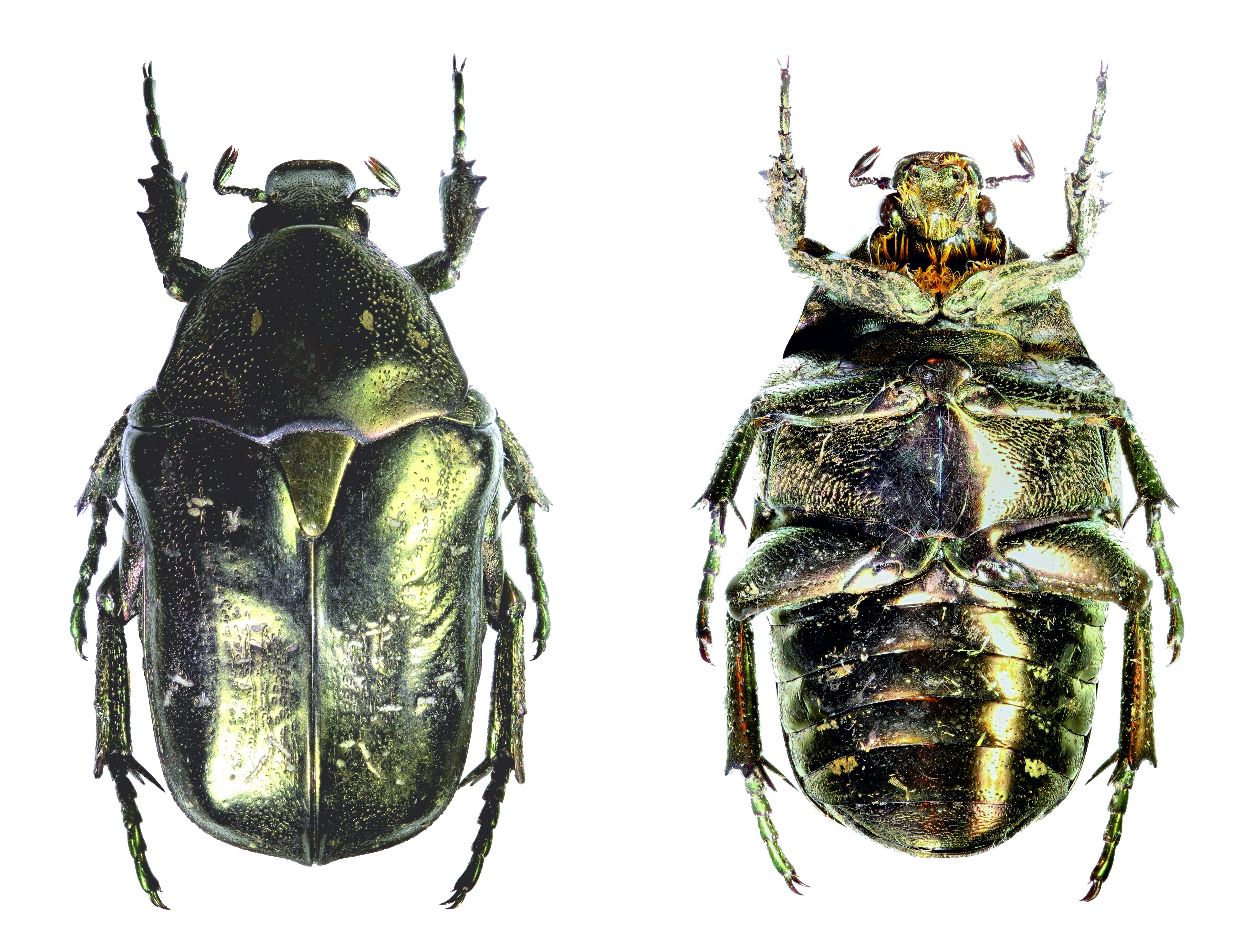 Protaetia (Liocola) marmorata dorsal&ventral